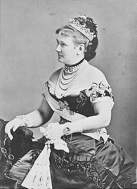 Carola Vasa, Queen of Saxony